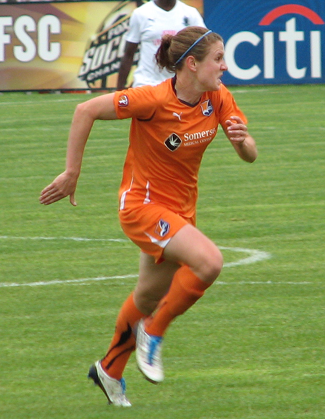 Heather O'Reilly of the NJ Sky Blue FC